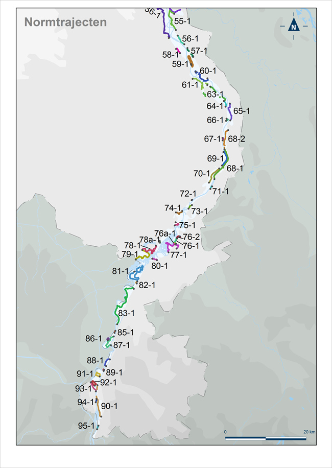 Dike sections in the Netherlands were the allowable inundation probability (failure probability) is given in the Water Law (South East Netherlands)